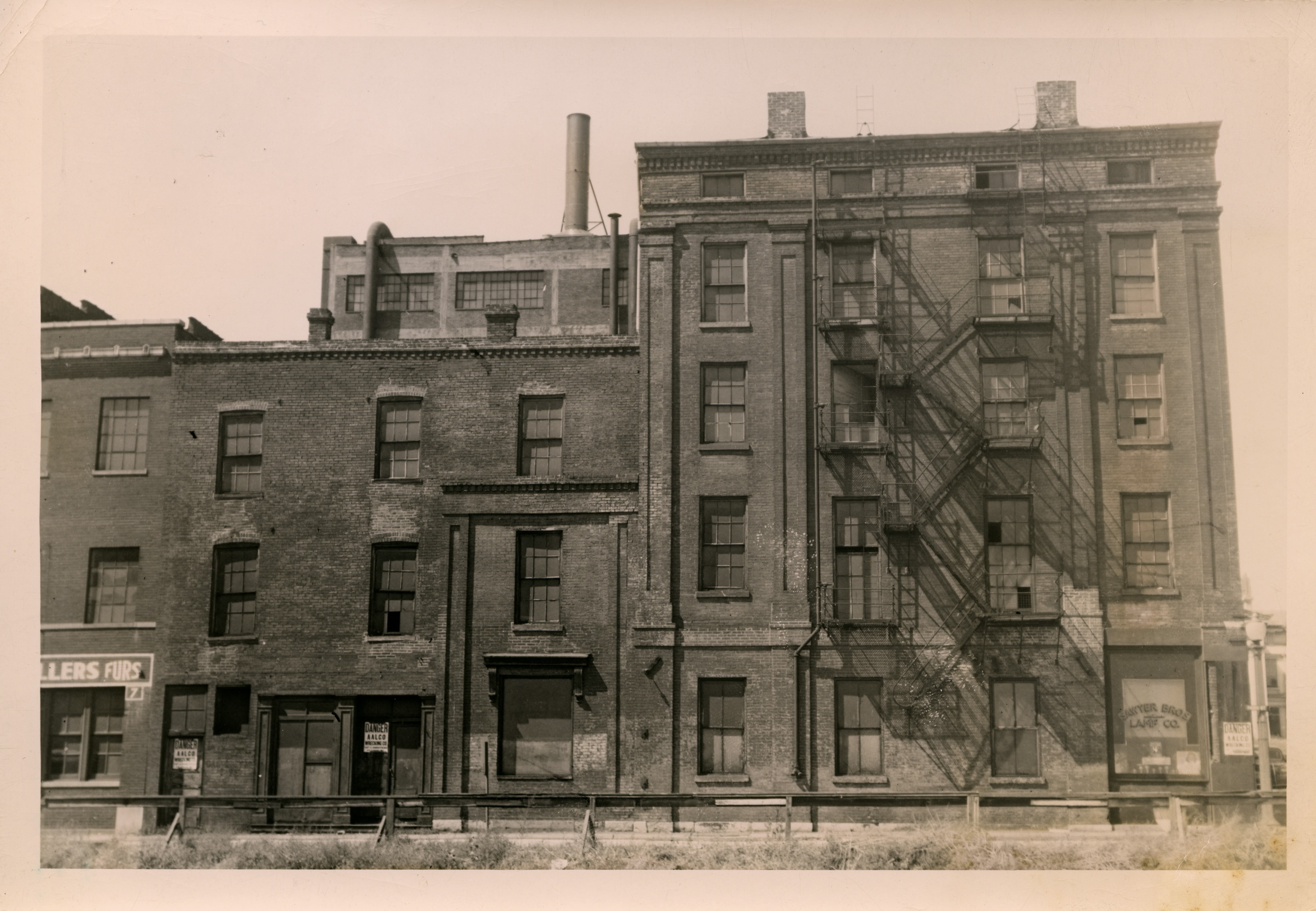 Horizontal, Black and white photograph of the corner of Market Street. A row of five story and three story brick commercial buildings are featured. A fire escape spans the side of the five story building and Sawyer Bros. Lamp Co. is printed on the corner window. The five story building has a decorative brick ledge at the top of the building. A sign advertising furs is displayed on one of the three story brick buildings.